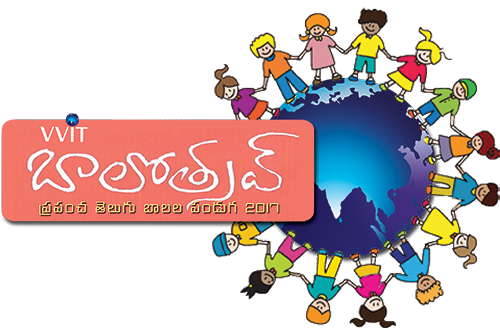 Balotsav 2017 hosted in VVIT